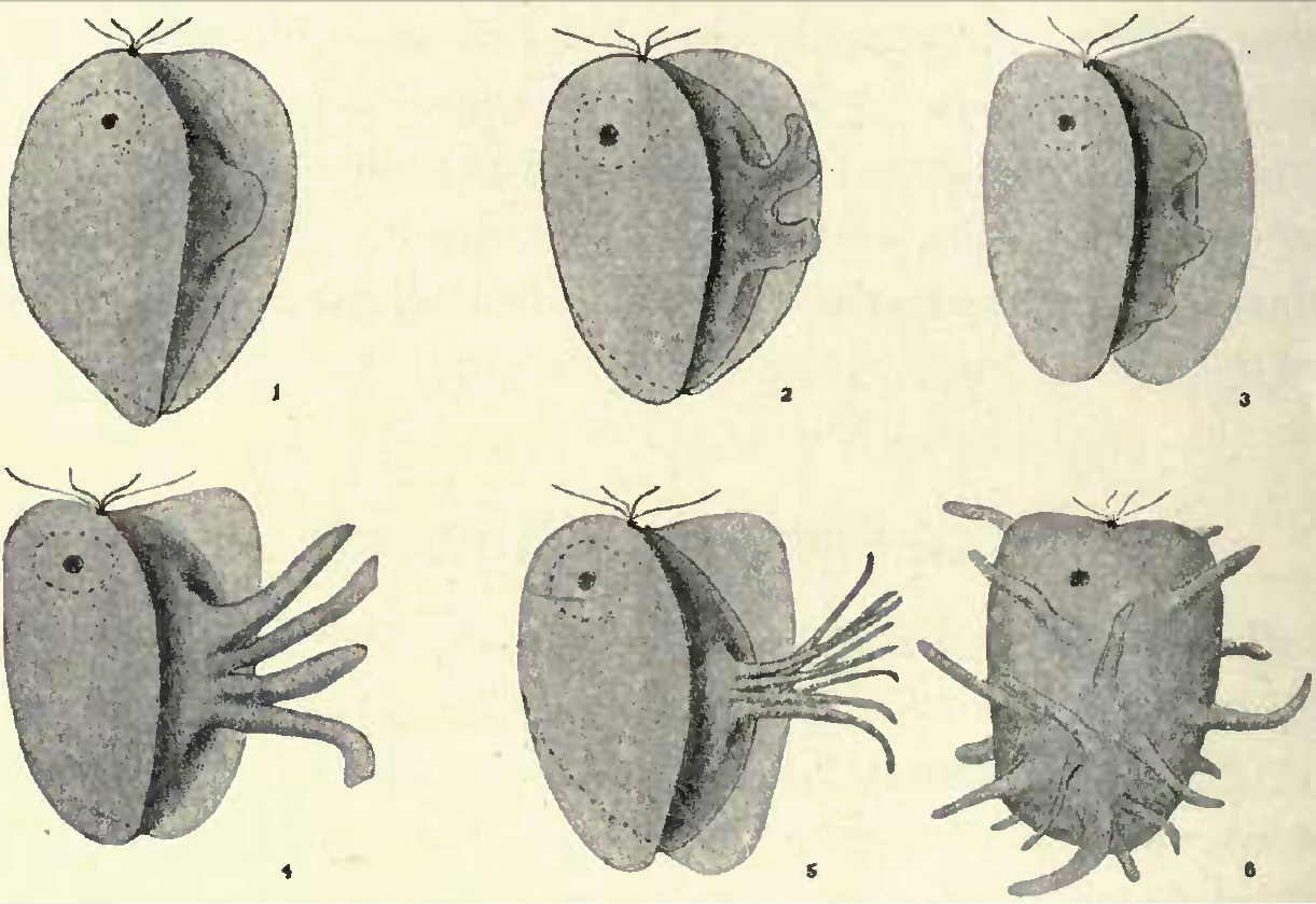 Pseudopodia of Collodictyon. Diagrammatic. X 1000. 1-2. Lobose. 3. Undulate. 4. Digitate. 5. Filose. 1-5. From the sulcus. 6. From all parts of the surface.